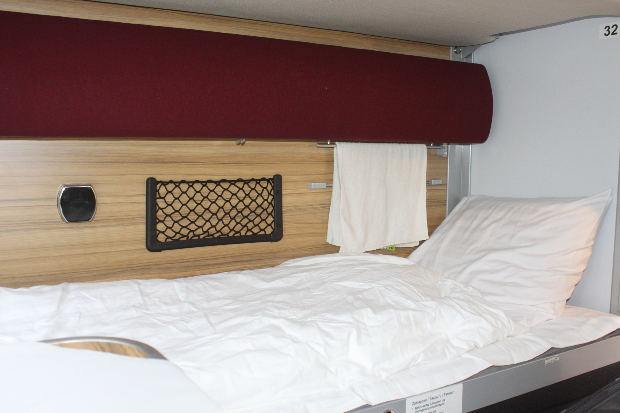 Interior of WLABmz 62 85 78-90 078-7 CH-FPC.